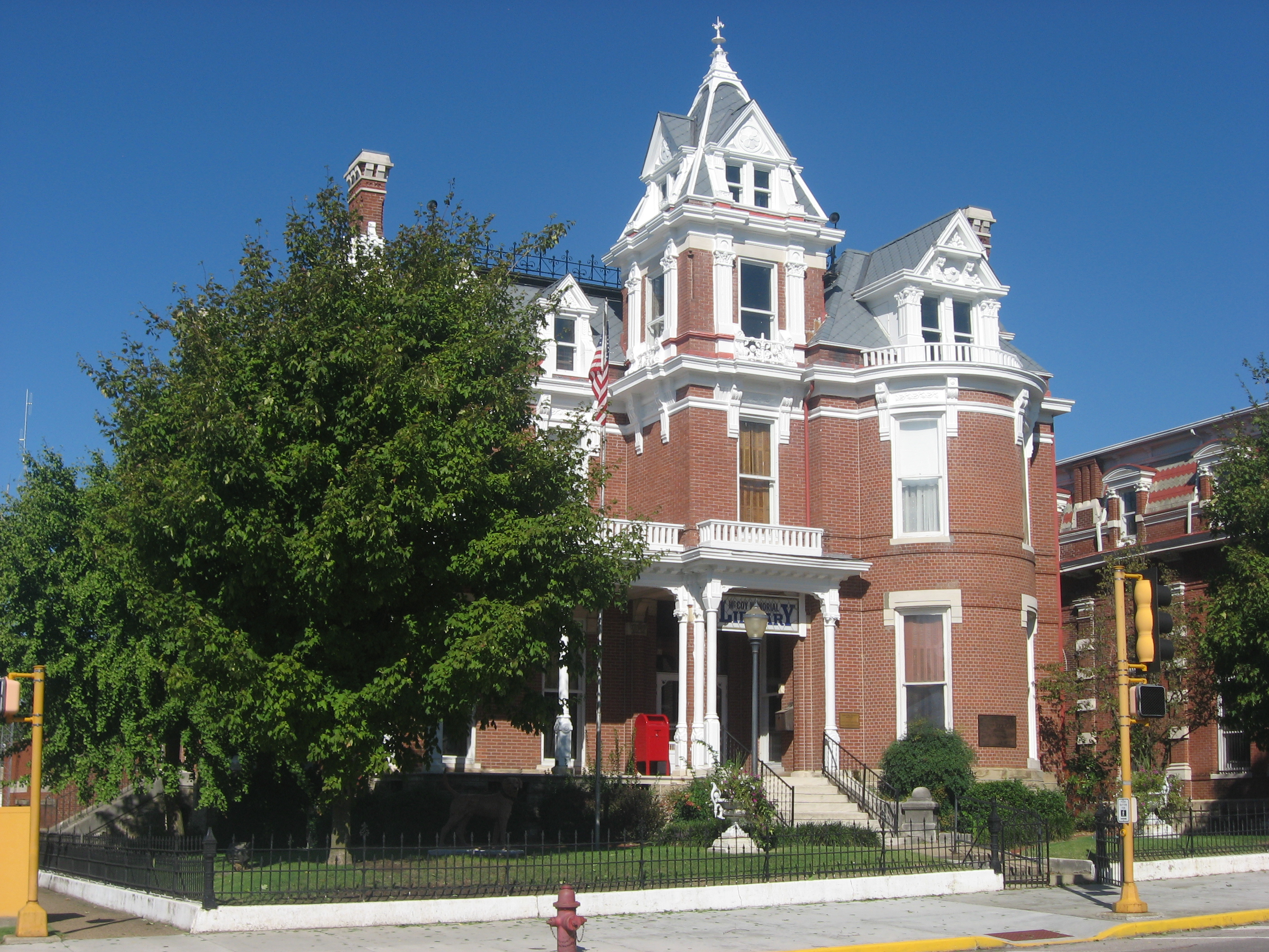 Front and southern side of the Aaron G. Cloud House, located at 164 S. Washington Street in McLeansboro, Illinois, United States. Built in 1882, it is listed on the National Register of Historic Places.